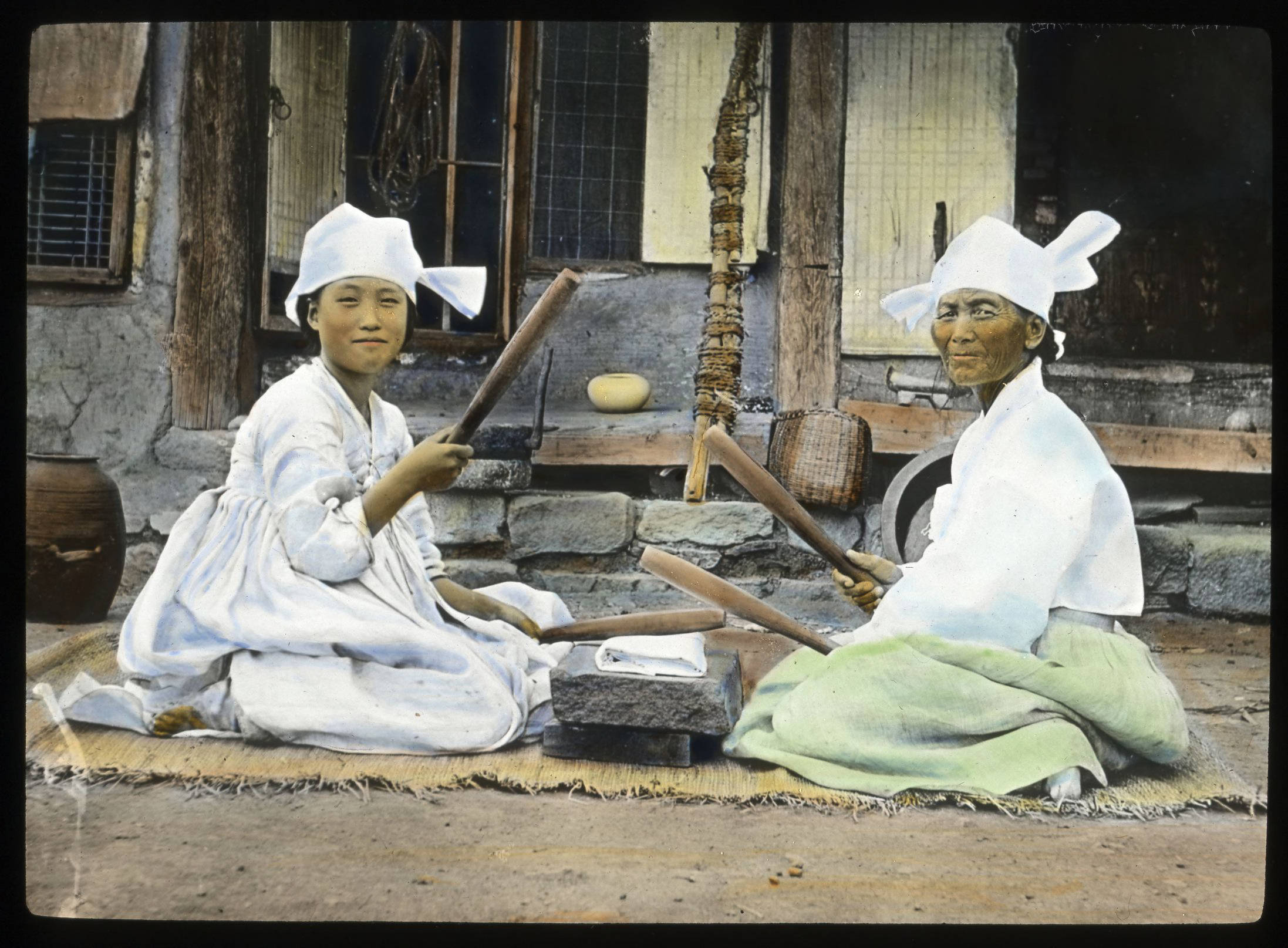 Korean women ironing clothes, Korea, [s.d.] Korean women ironing clothes, Korea, [s.d.].